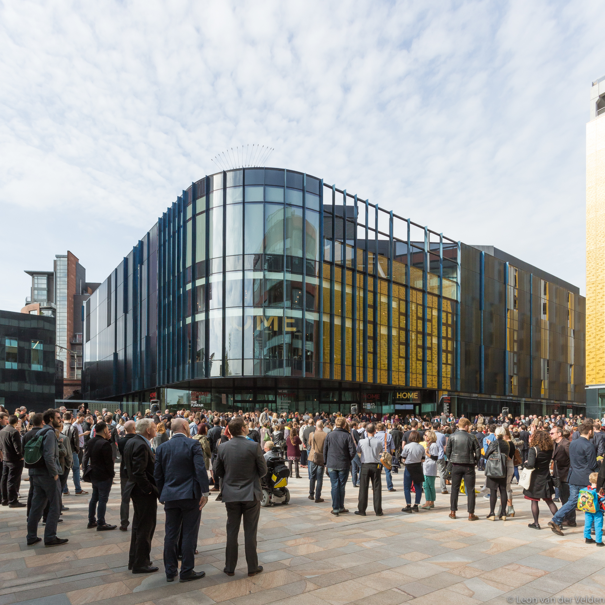 HOME centre for international contemporary art, theatre and film.